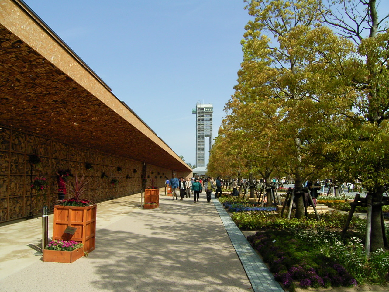 Kirameki-tower （Shizuoka International Garden and Horticulture Exhibition, Pacific Flora 2004）